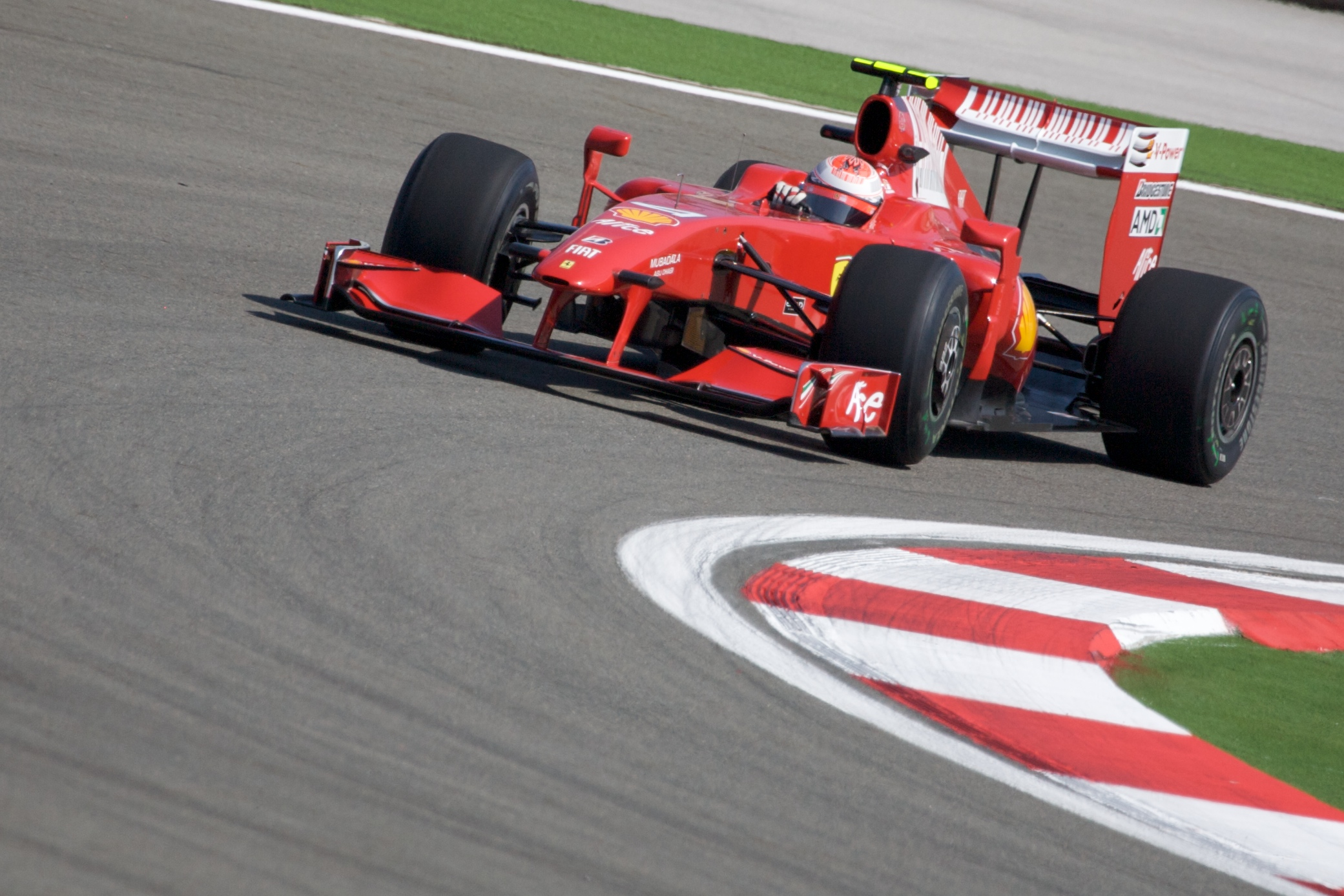 Kimi Räikkönen driving for Scuderia Ferrari at the 2009 Turkish Grand Prix.